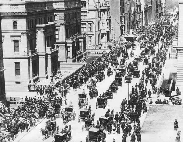 "Fifth Avenue in New York City on Easter Sunday in 1900"